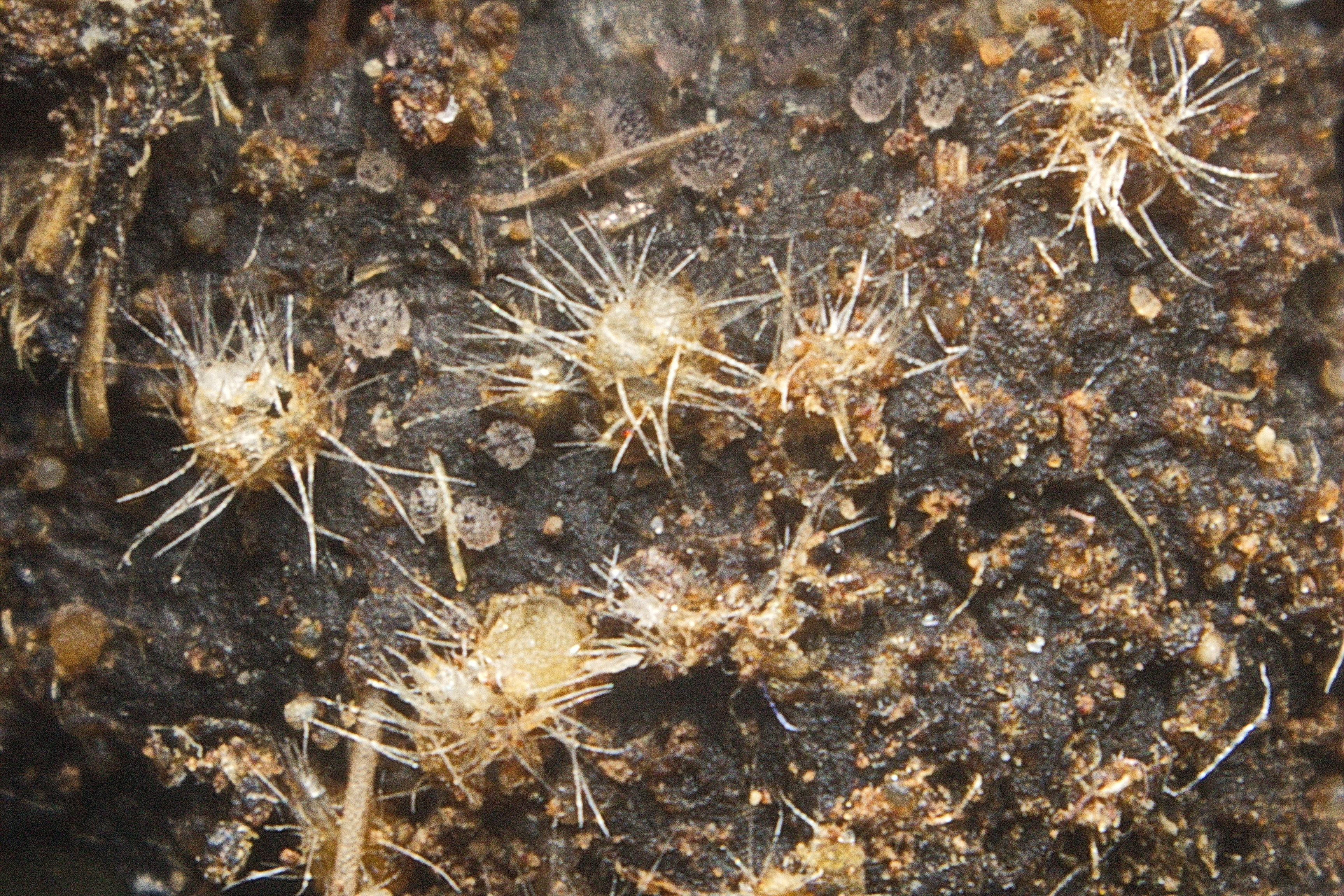 Trichobolus zukalii (Heimerl) Kimbr. Image location: Observatory Hill, Victoria, British Columbia, Canada Original ID: Trichobolus zukalii (Heimerl) Kimbr. For more information about this, see the observation page at Mushroom Observer.